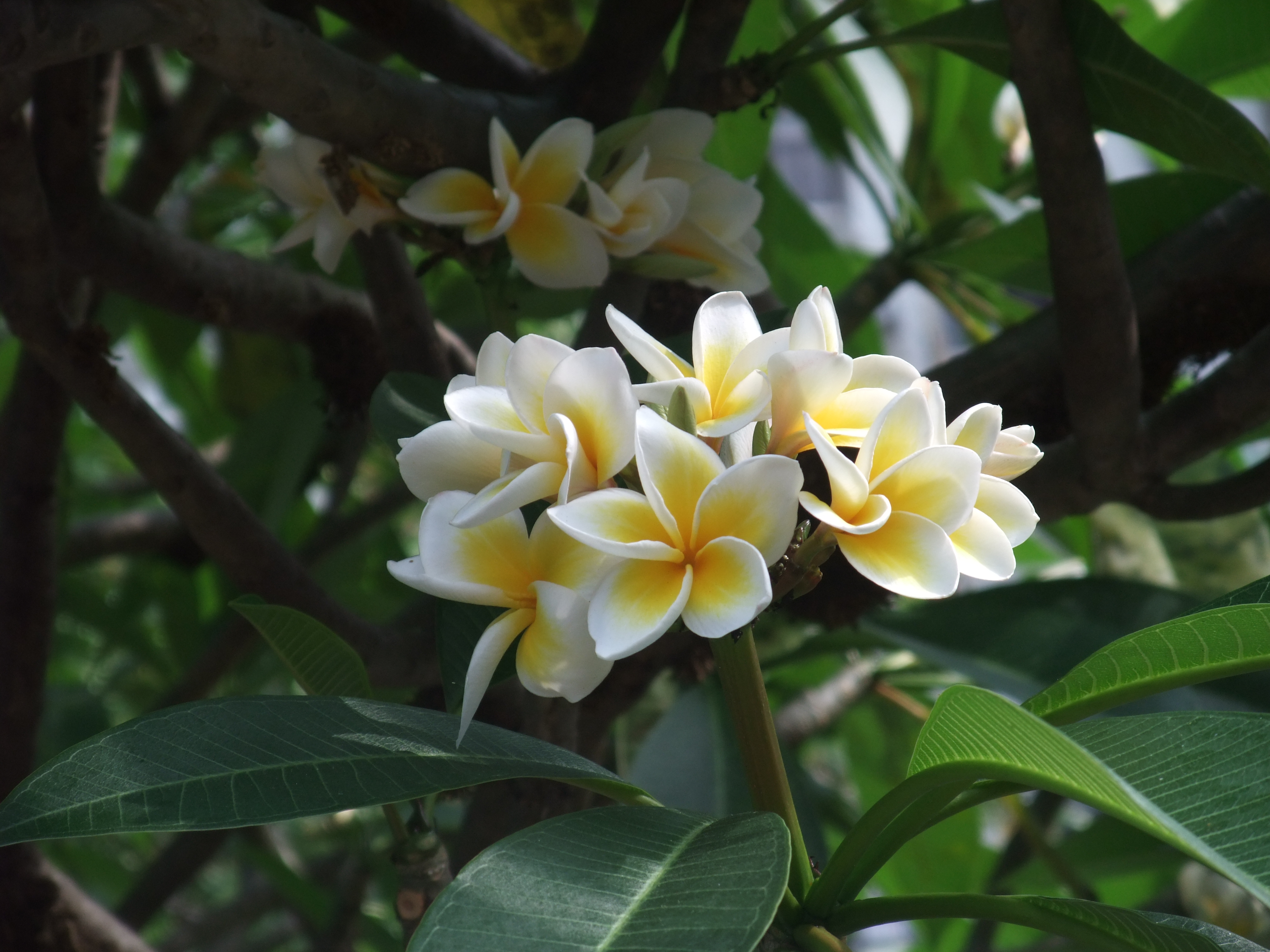 Photo of Plumeria rubra at Aberdeen Promenade